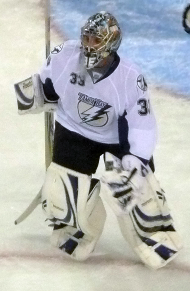 Dan Ellis, of the Tampa Bay Lightning, during a pregame skate against the Montreal Canadiens at the Bell Centre in Montreal, Quebec.